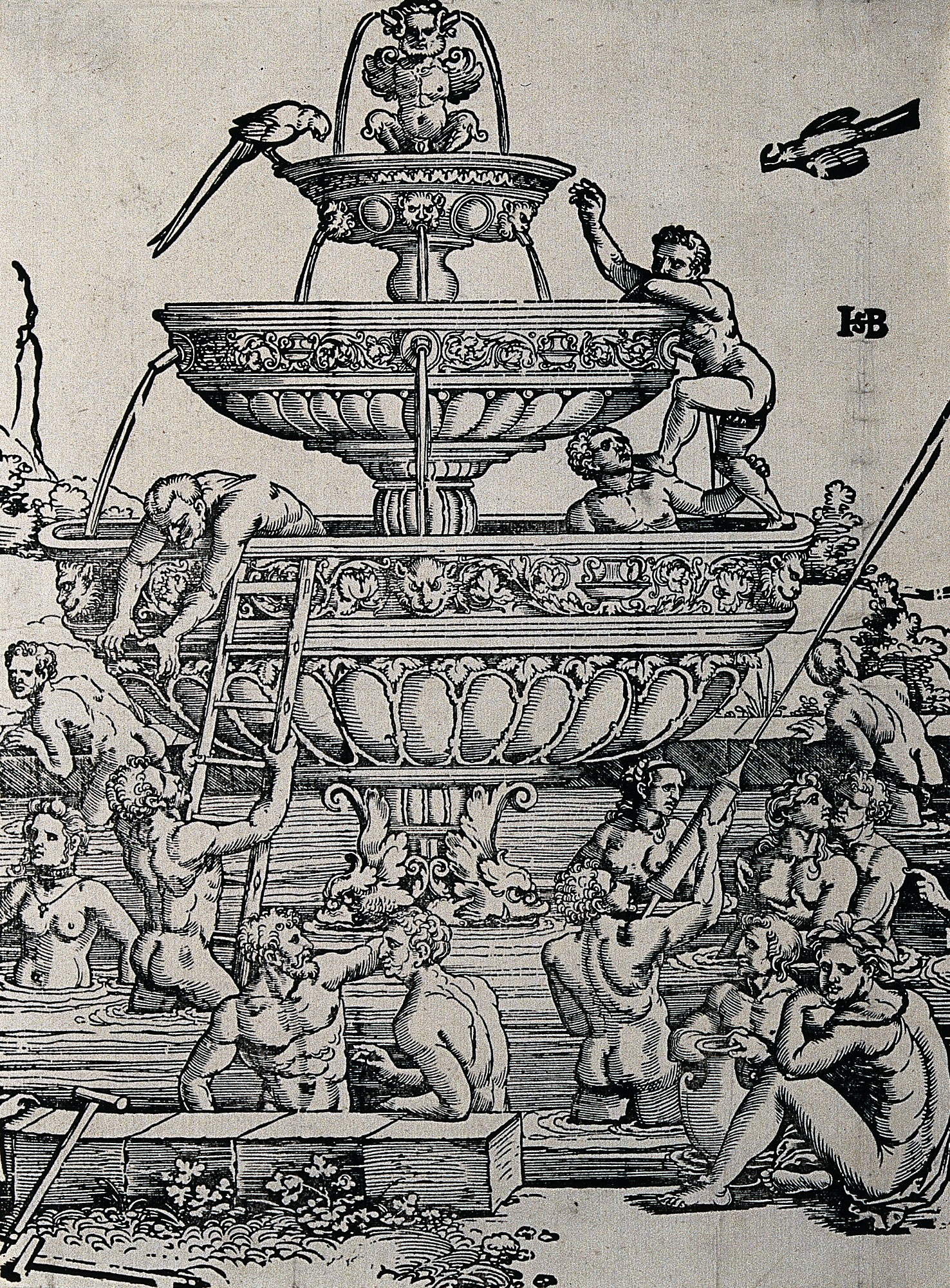 one of four prints (Block 2: men and women bathe in the pools of a four-tiered fountain)